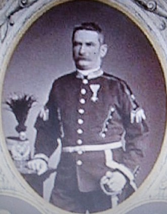 Albert Prochaska (1827-1897)